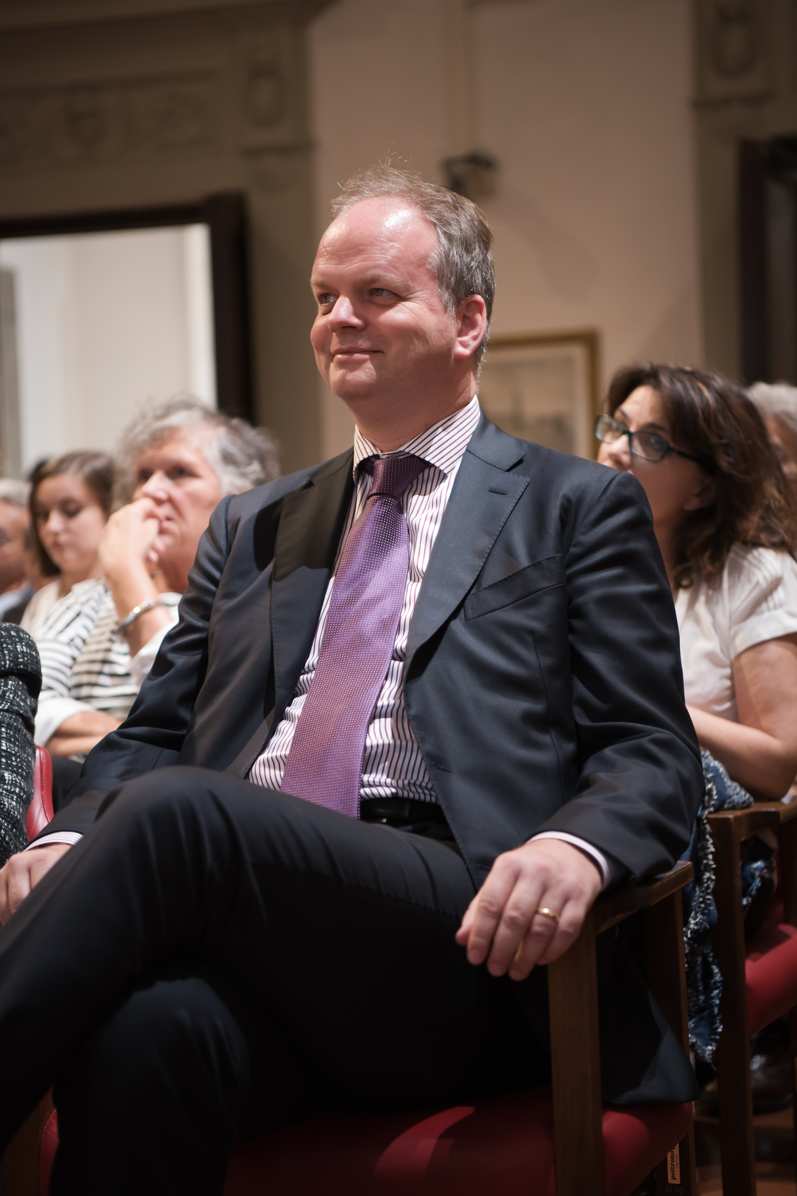 Eike Dieter Schmidt (Freiburg im Breisgau, 1968), Art historian, during a conference at Palazzo Panciatichi in Florence, Italy (04/10/2016).